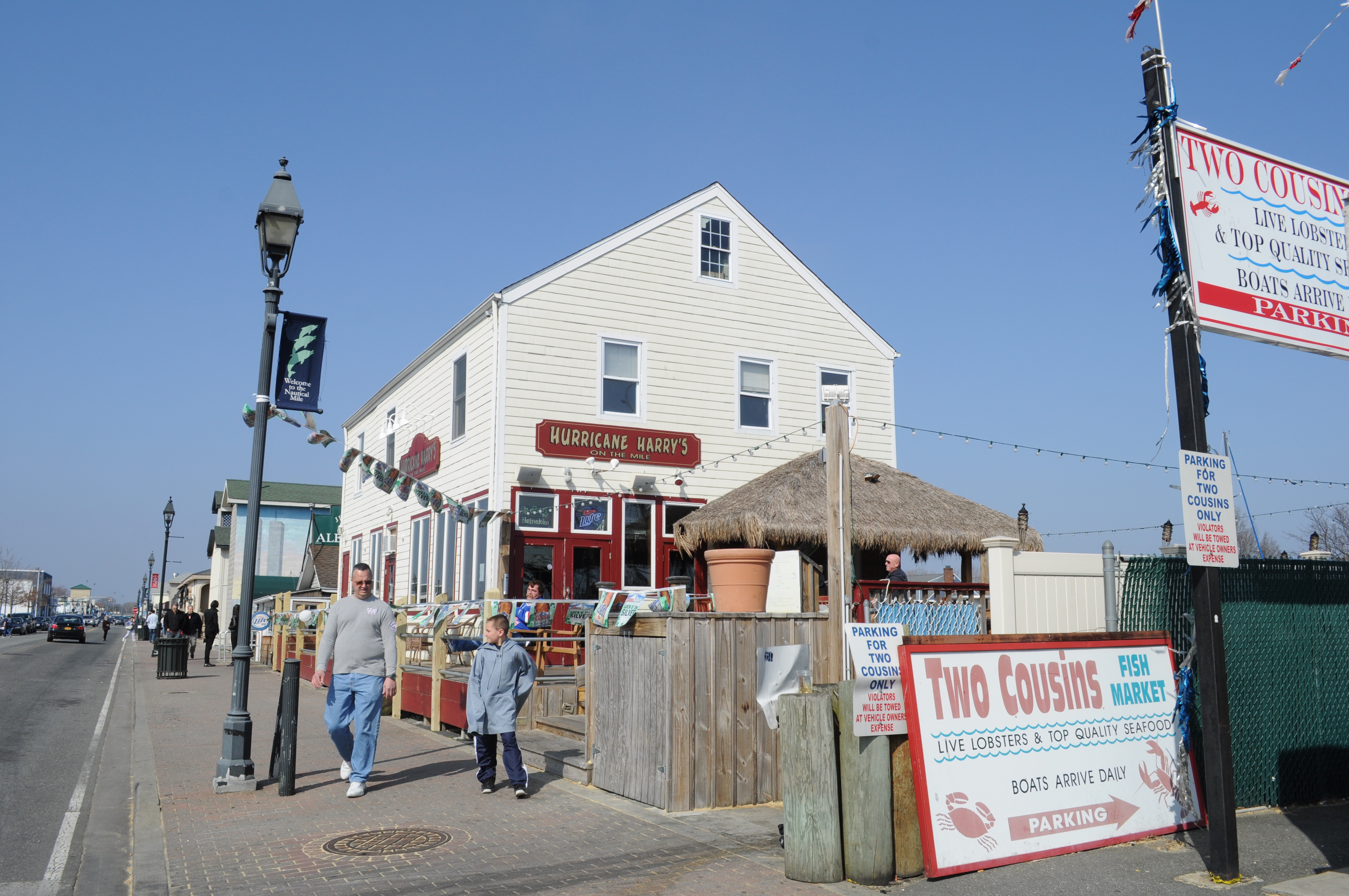 Hurricane Harry's, Nautical Mile (Woodcleft Avenue, along the Woodcleft Canal), Freeport, Long Island, New York.